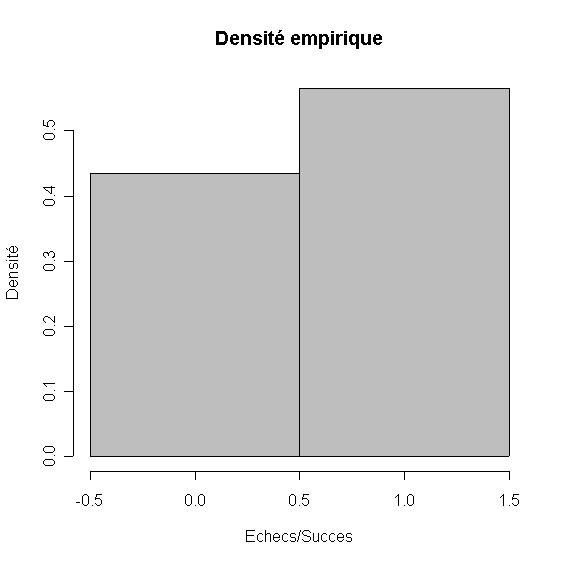 A simple histogram